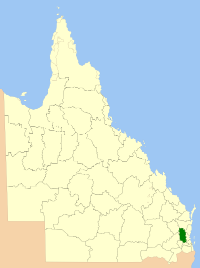 Location of the Local Government Area in Queensland